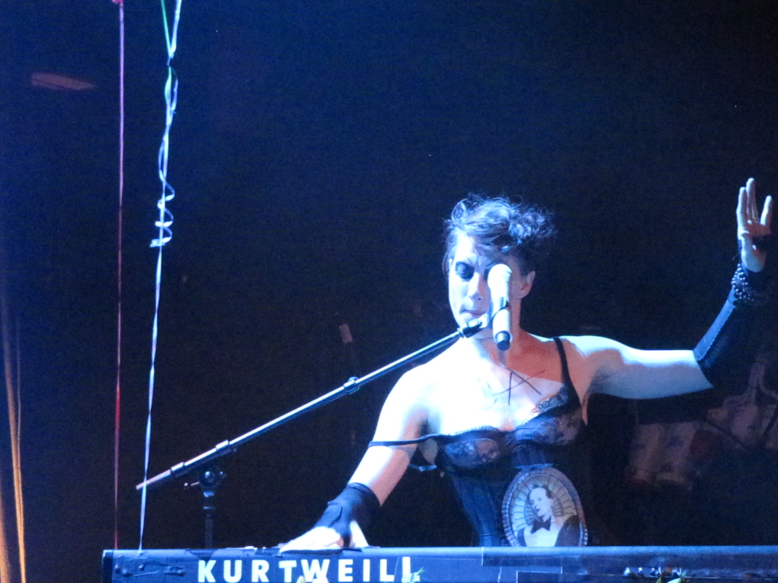 Amanda Palmer playing her relabelled "Kurtweill" piano (this must have been during Missed Me, so you can probably guess what's happening here). Gloria, Cologne, 2013-11-01 Some snapshots from Amanda Palmer's show at the Gloria Theatre in Cologne, 2013-11-01